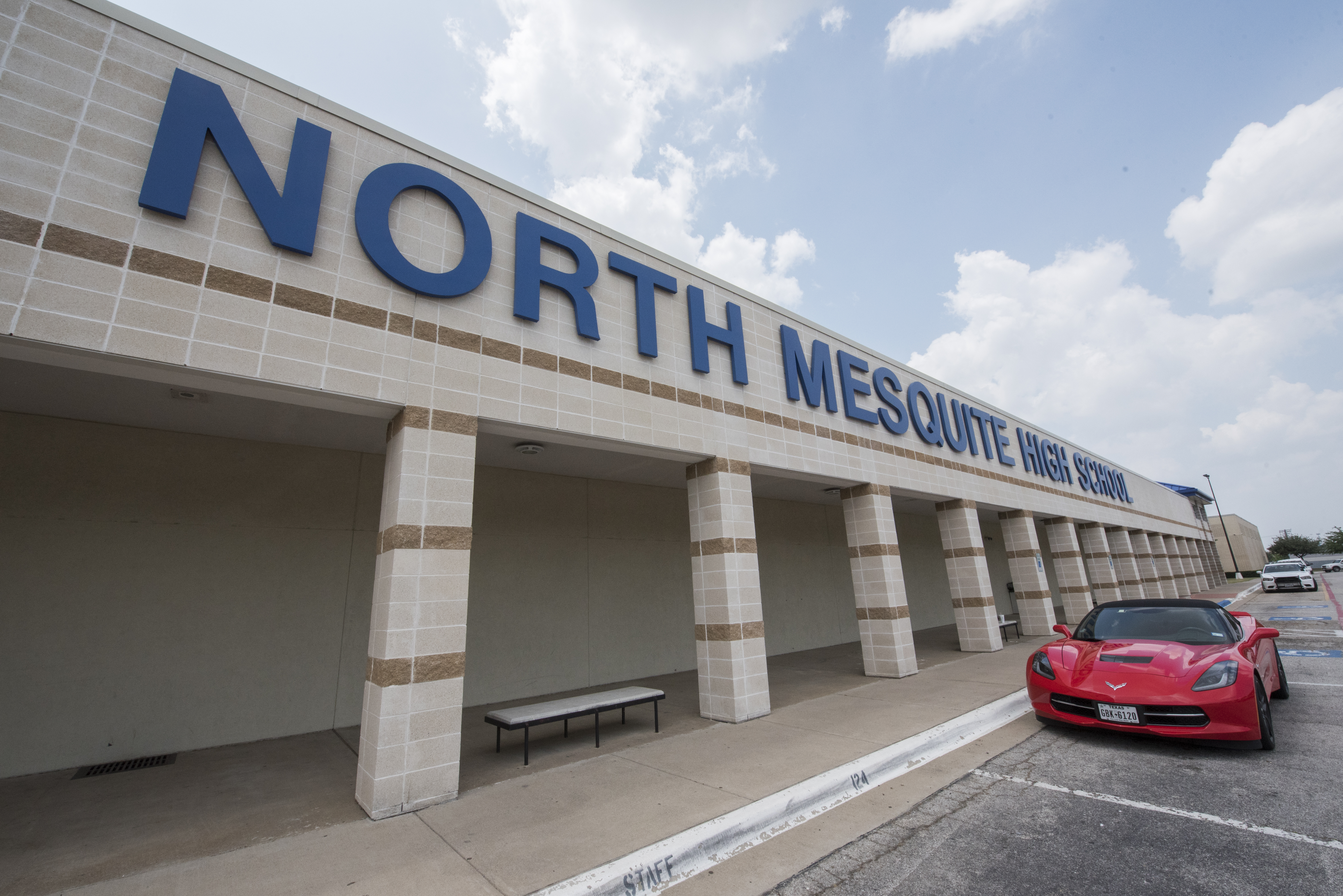 Outside of North Mesquite High School in Mesquite, Texas